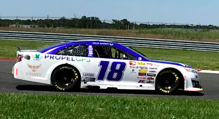 Colin Garrett on track at New Jersey Motorsports Park in 2018.